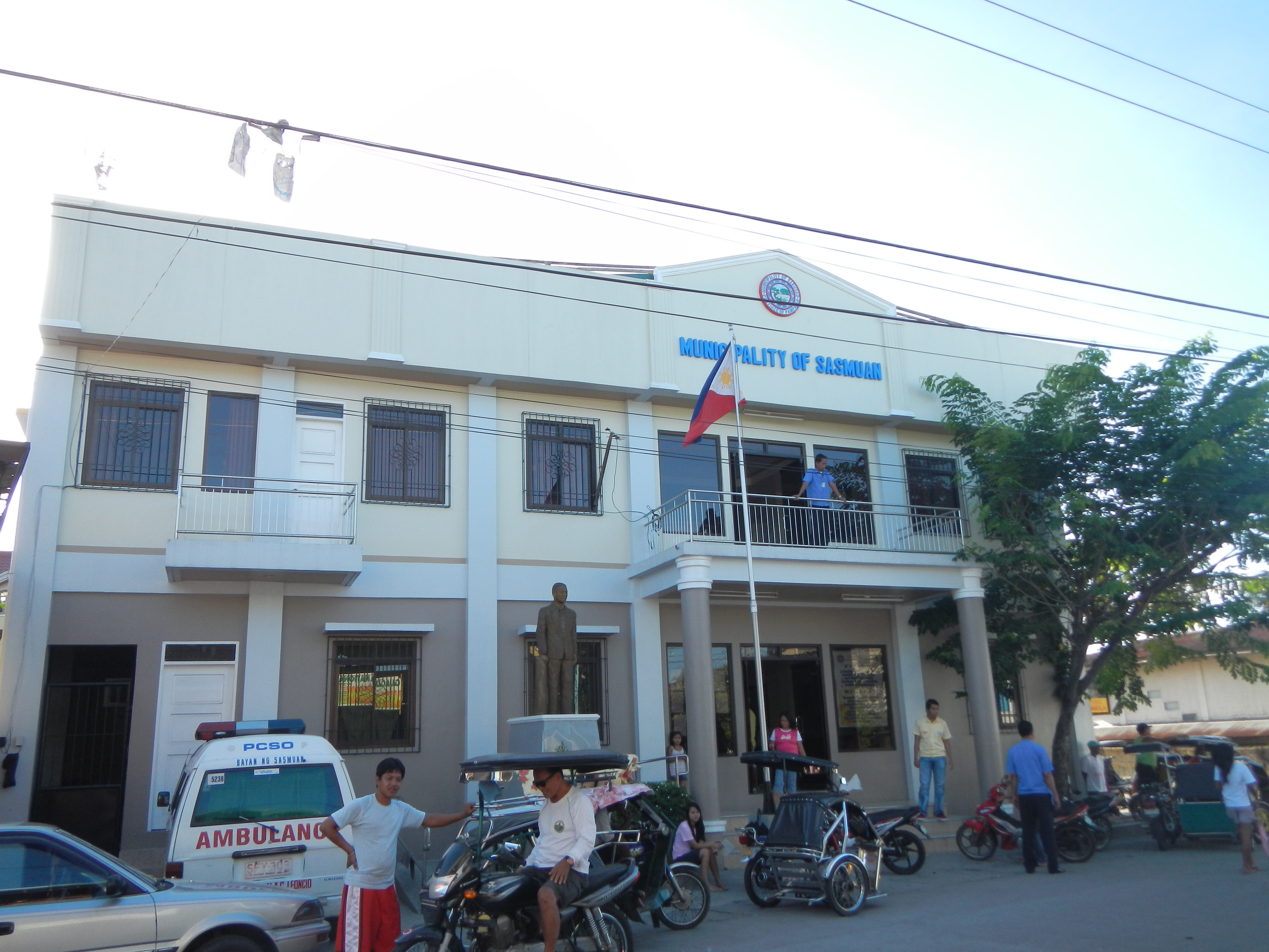 Sasmuan, Pampanga[1]